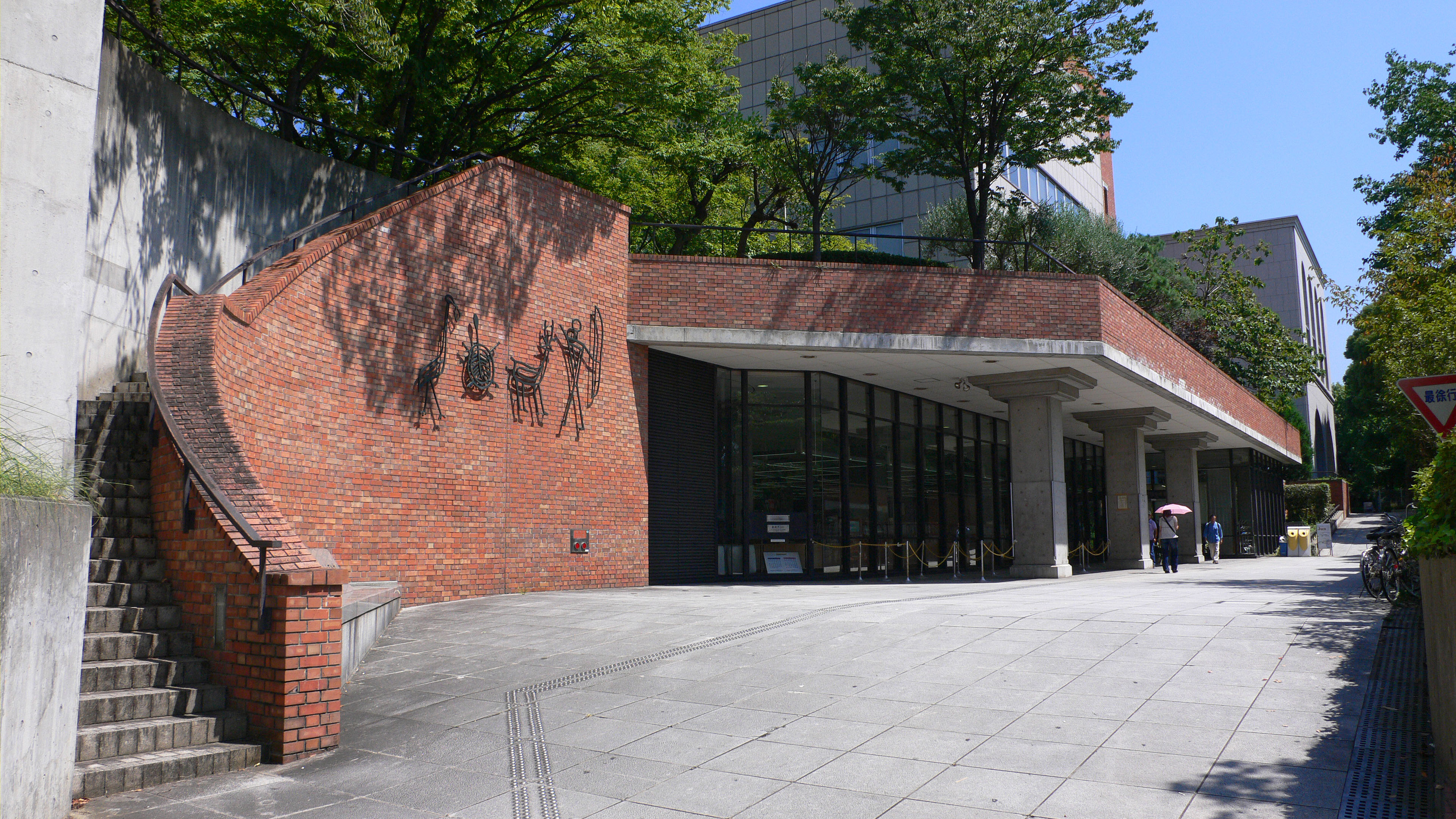 Kobe Municipal Central Library in Kobe, Hyogo, Japan